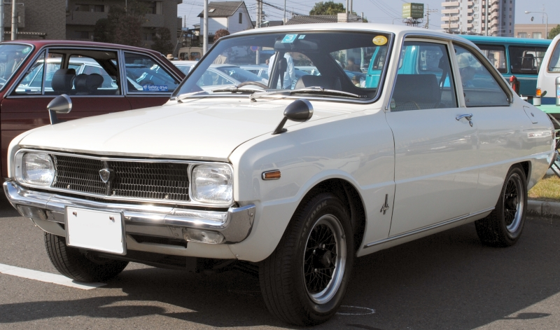 Mazda Familia Rotary Coupe.